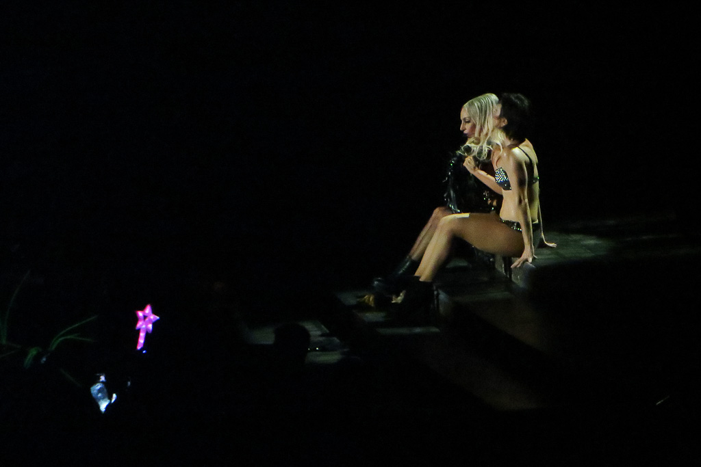 Lady Gaga performing "Bad Kids" at her tour Born This Way Ball.